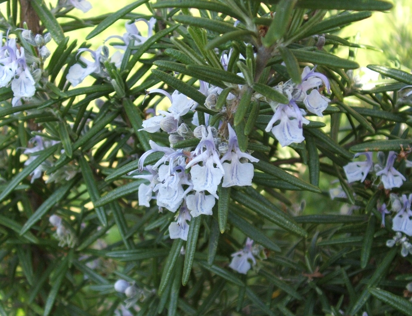 Rosmarinus officinalis (rosemary)